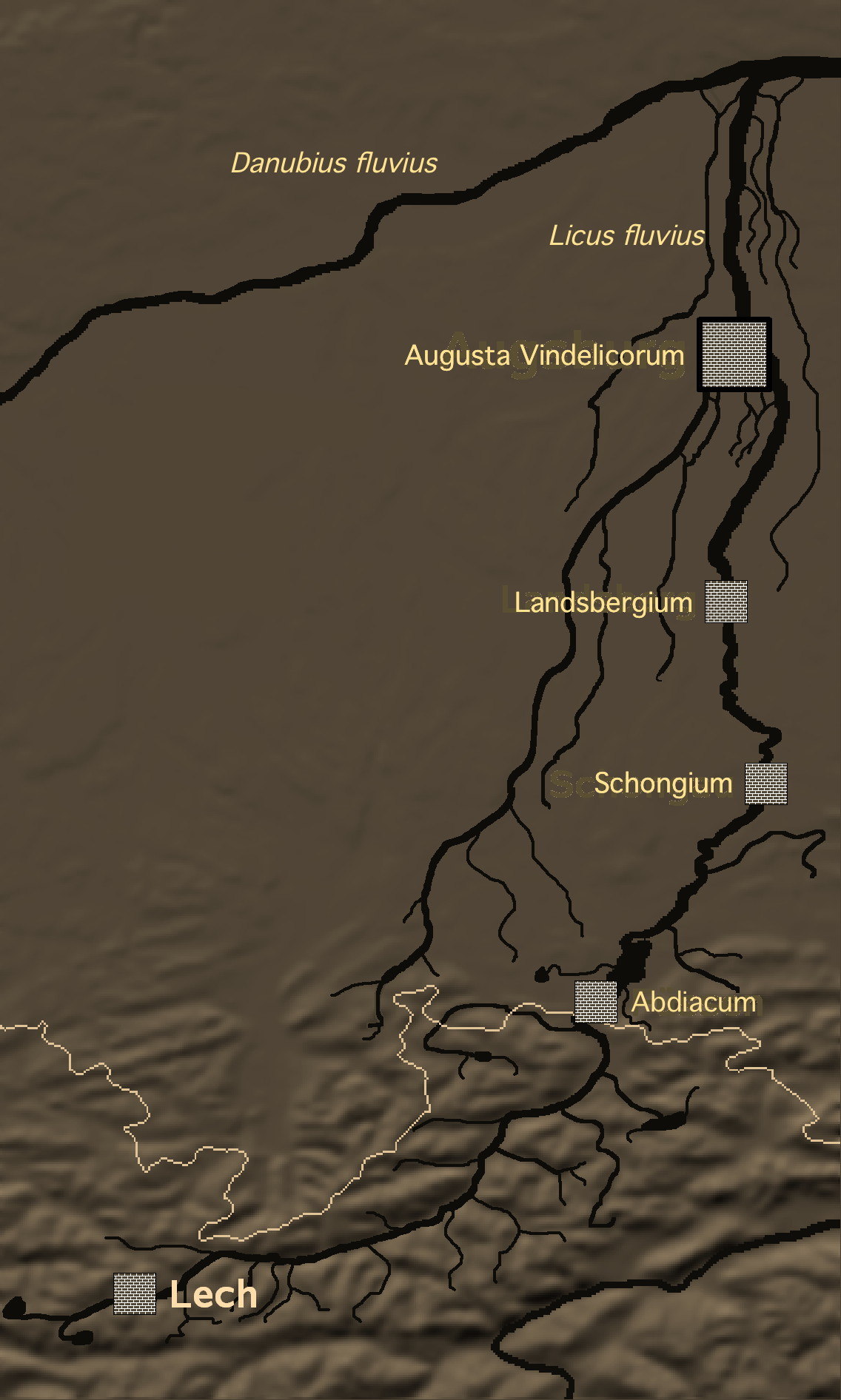 Lech river tributary of Danube river